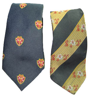 This image is the school tie of SJACS, Hong Kong. 中文（香港）: 這是香港聖若瑟英文中學學生配帶的校呔(右)及高年級學生校呔（左）。 該圖為本人自行拍攝, 擁有及公佈, 並願意作為公開領域圖片. ~~User:tksteven~~